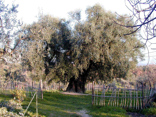 The olive tree located in Canneto Sabino (province of Rieti, Italy) and nicknamed "ulivone", among the oldest and largest in Europe